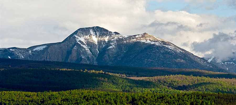 The Peteroa (burning bushes) volcano lies at the south end of the Planchón-Peteroa volcanic complex.